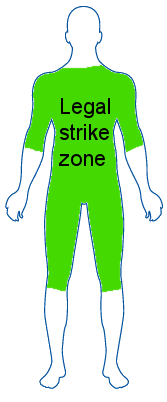 This is a diagram of the legal hit zones for Australian Rules Jugger, which are below the neck, above the knees and above the elbows.